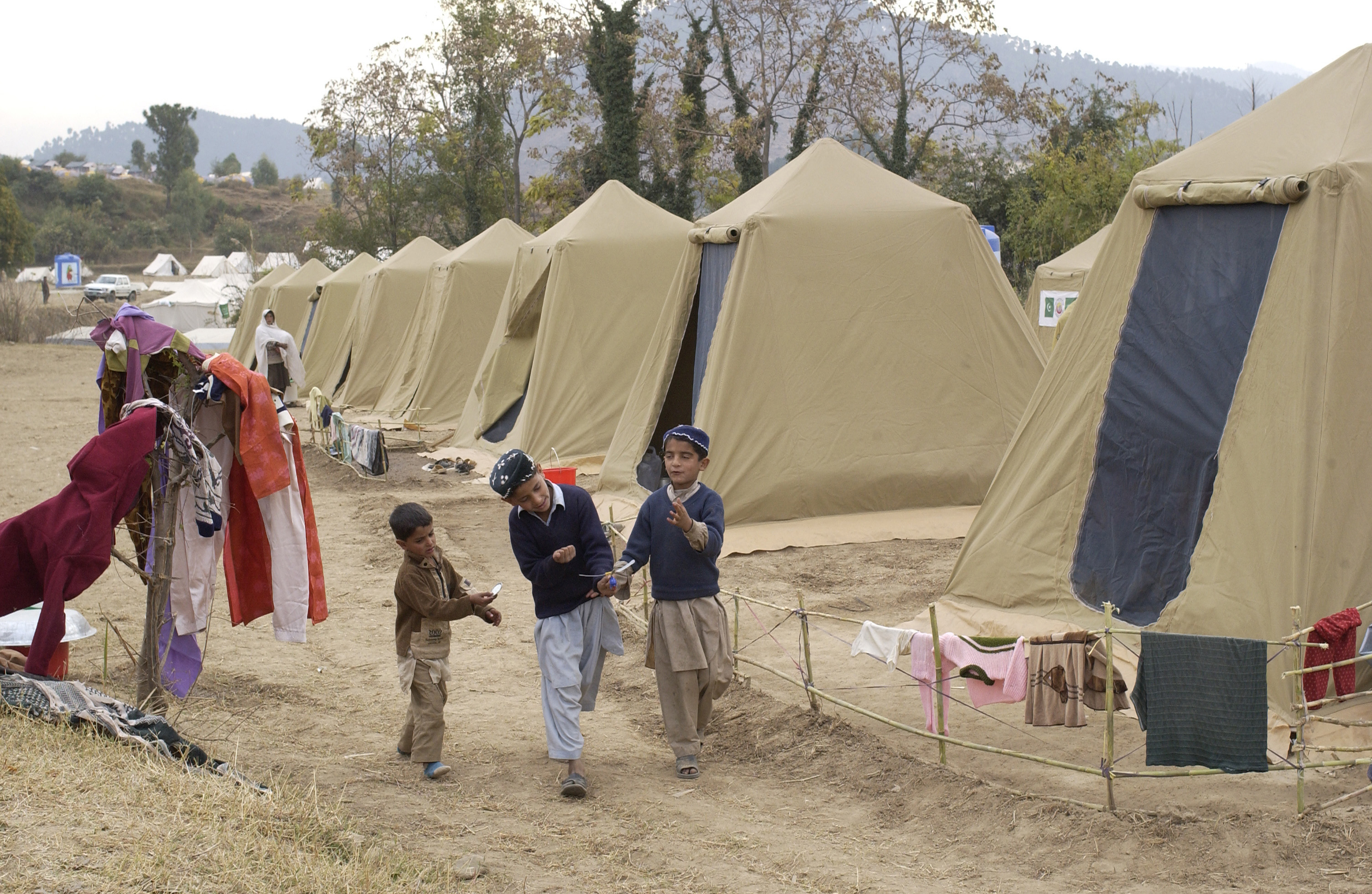 Shinkiari, Pakistan (Nov. 21, 2005) - Pakistani children play with a toy helicopter at Jabba Farm Tent Village in Shinkiari, Pakistan. Jabba Farm Tent Village was built to house displaced earthquake survivors. The U.S. government is participating in a multinational humanitarian assistance and support effort led by the Pakistani government to bring aid to victims of the devastating earthquake that struck the region Oct. 8, 2005. U.S. Air Force photo by Airman 1st Class Barry Loo (RELEASED)